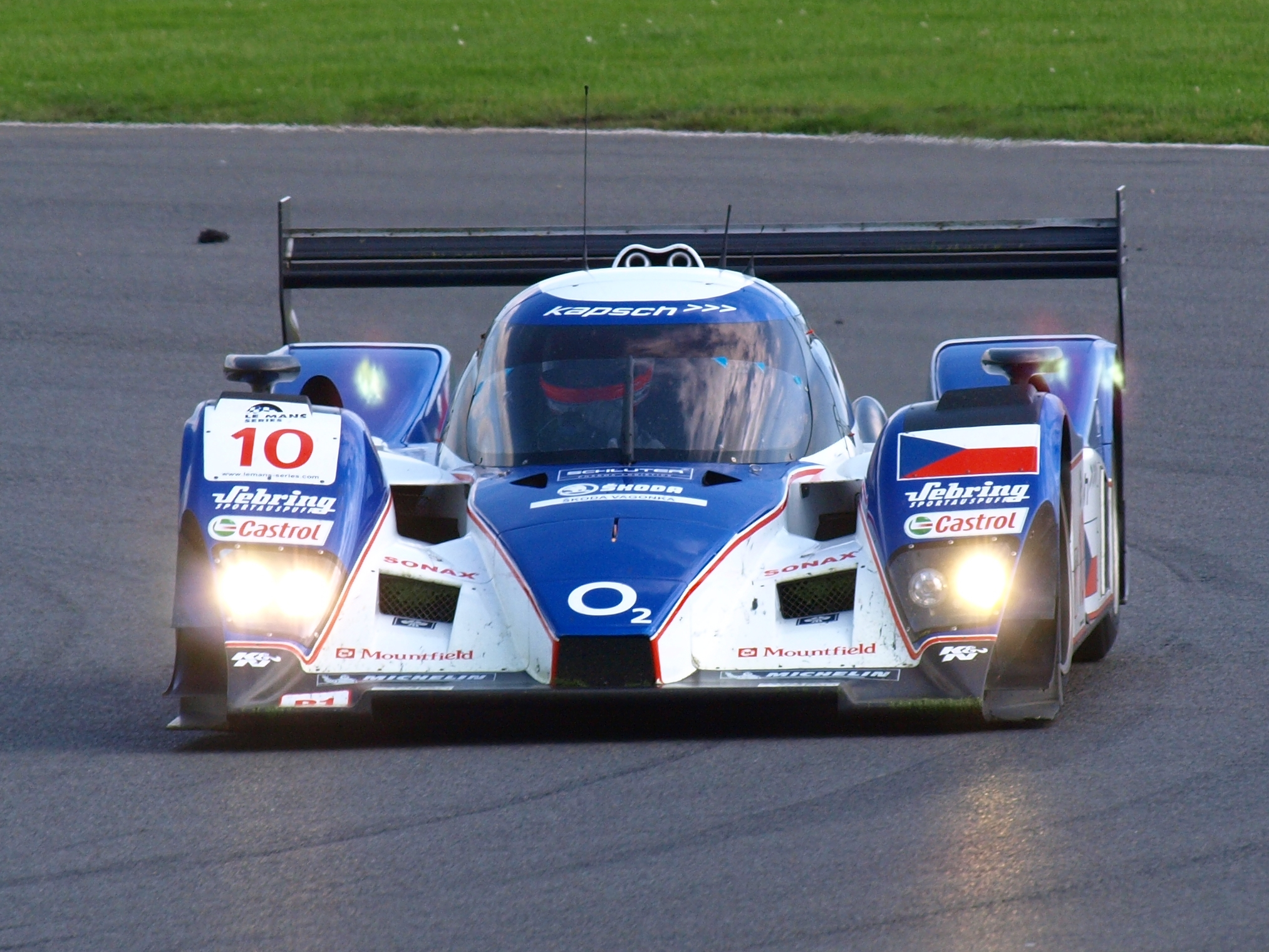 Charouz Racing System's Lola B08/60-Aston Martin at the 2008 1000km of Silverstone driven by Stefan Mücke.